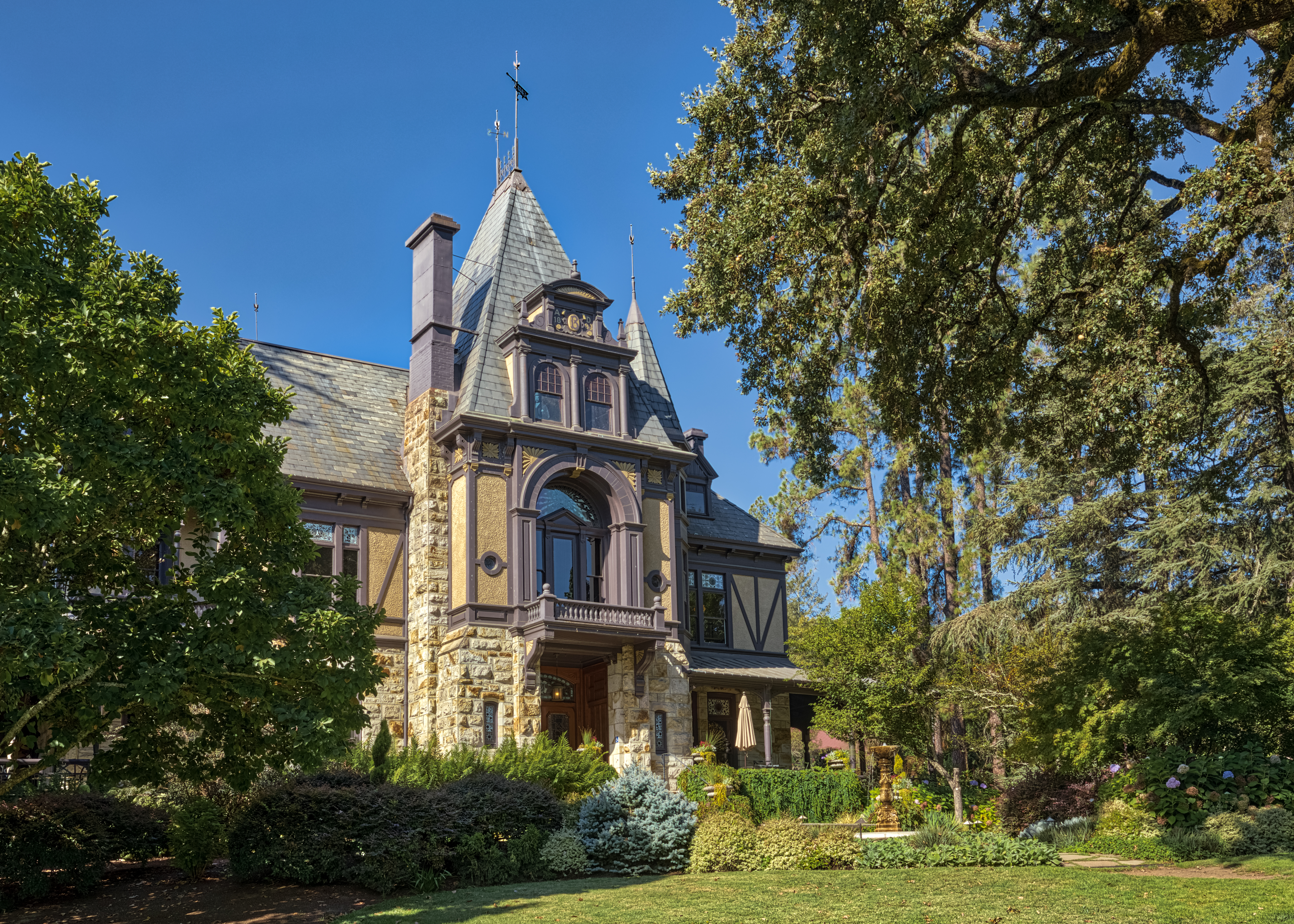 Rhine House at Beringer Vineyards, St. Helena, Napa County, California